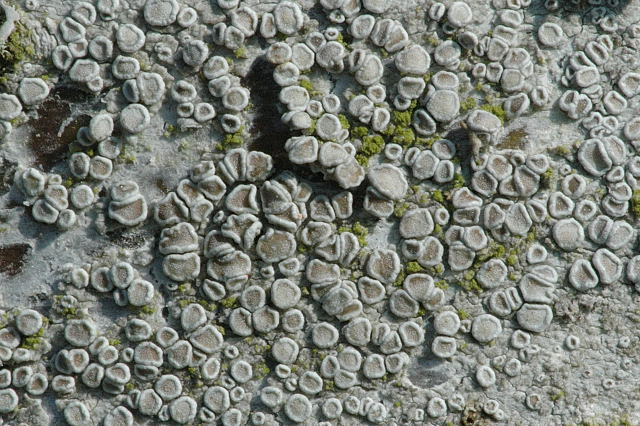 Picture taken in Commanster, Belgian High Ardennes . Species: Lecanora albella